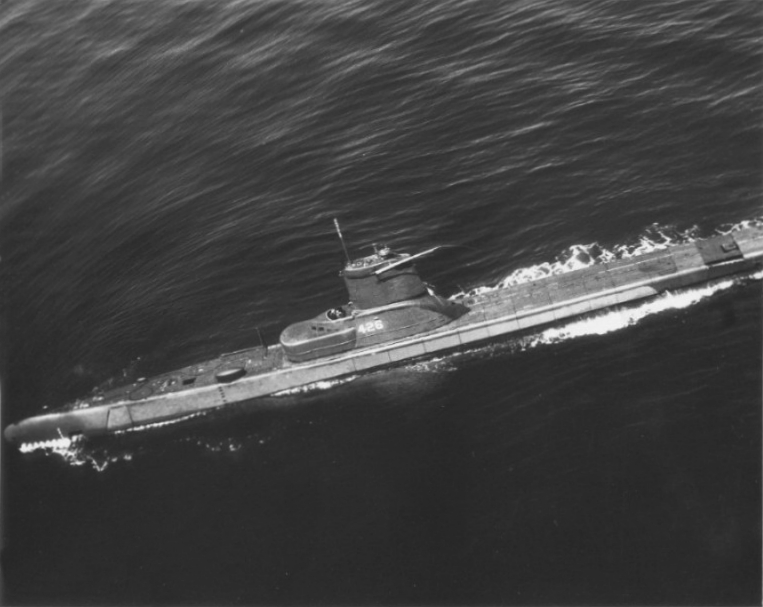 The U.S. Navy submarine USS Tusk (SS-426) underway after her GUPPY conversion, circa in the late 1940s.